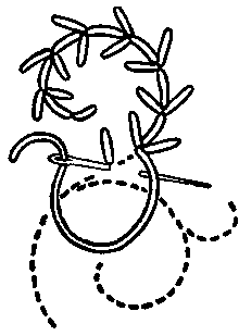 Fern stitch, from Samplers and Stitches, a handbook of the embroiderer's art by Mrs Archibald Christie, London 1920/New York, 1921